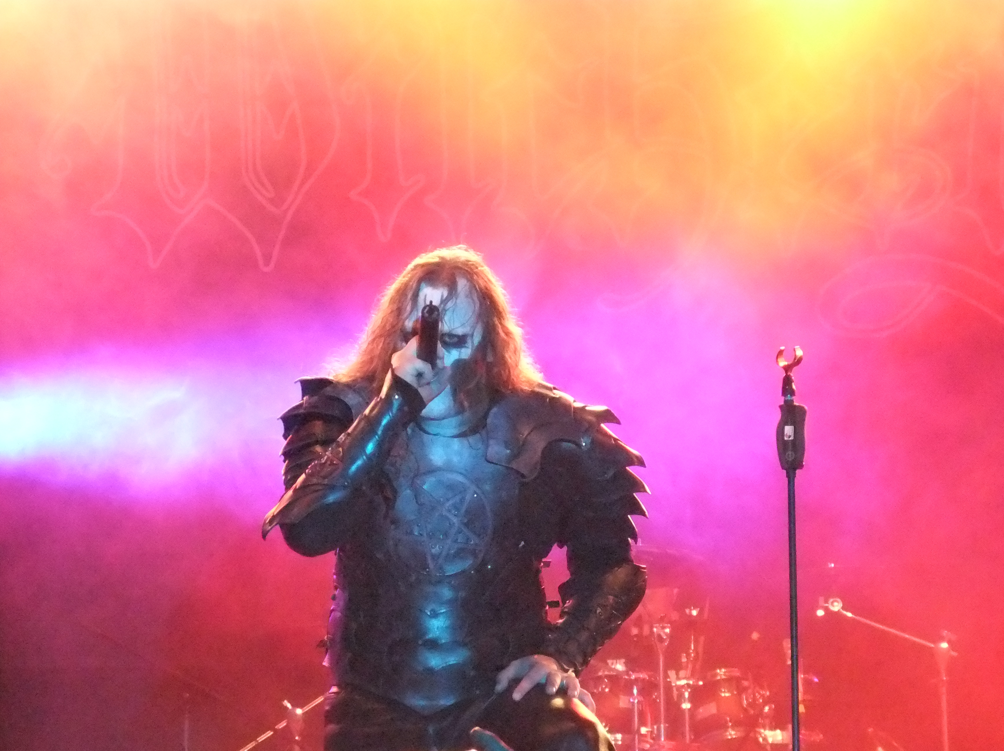 Magus Caligula performs as lead singer of witchery, Summer Breeze 2011